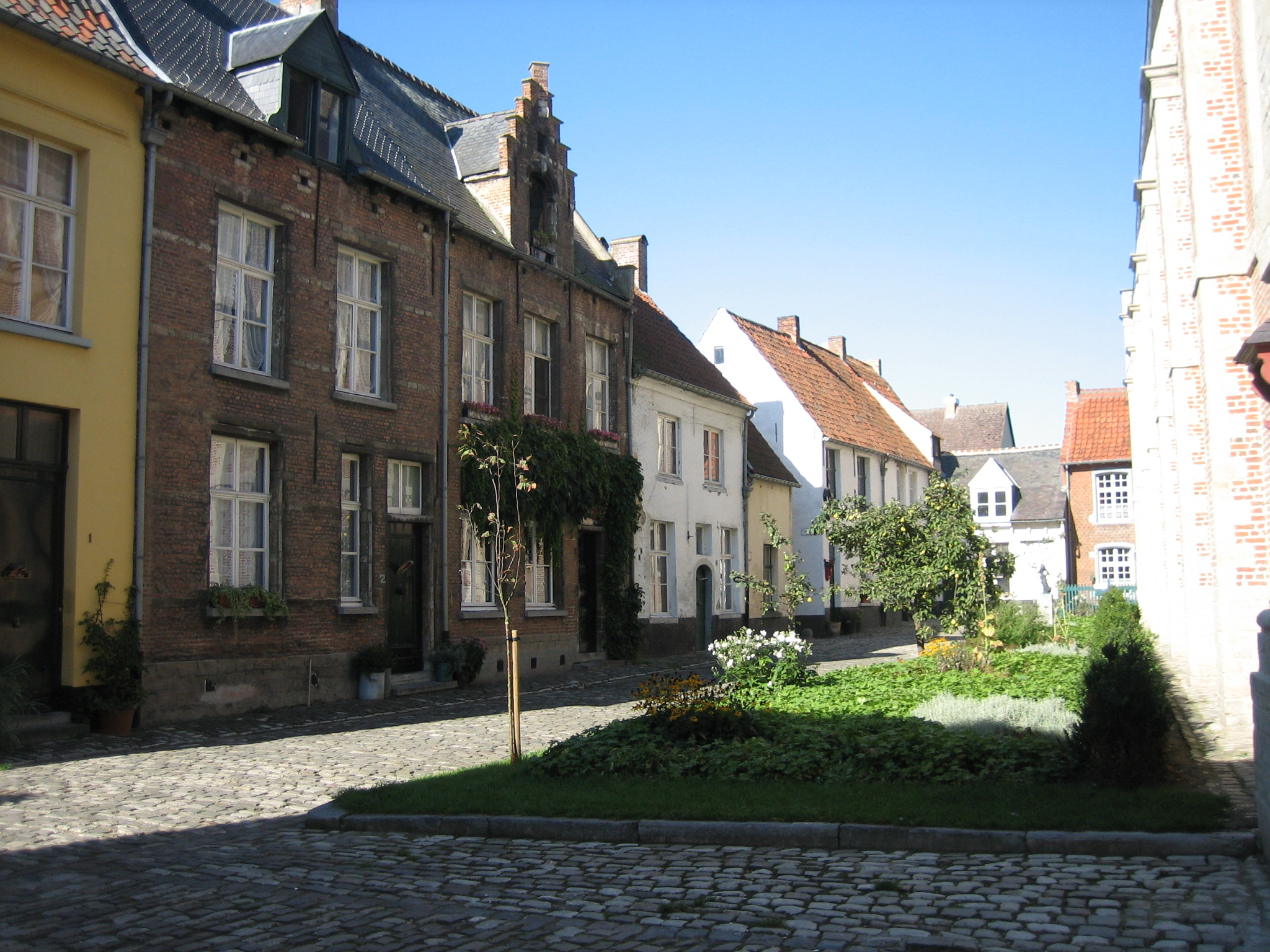 Beguinage (Begijnhof) in Lier, Belgium.